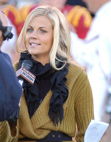 Sideline reporter Samantha Steele (now Samantha Ponder) delivers a report for the Fox College Sports network during the Texas Tech vs. Iowa State football game on October 2, 2010 at Jack Trice Stadium.